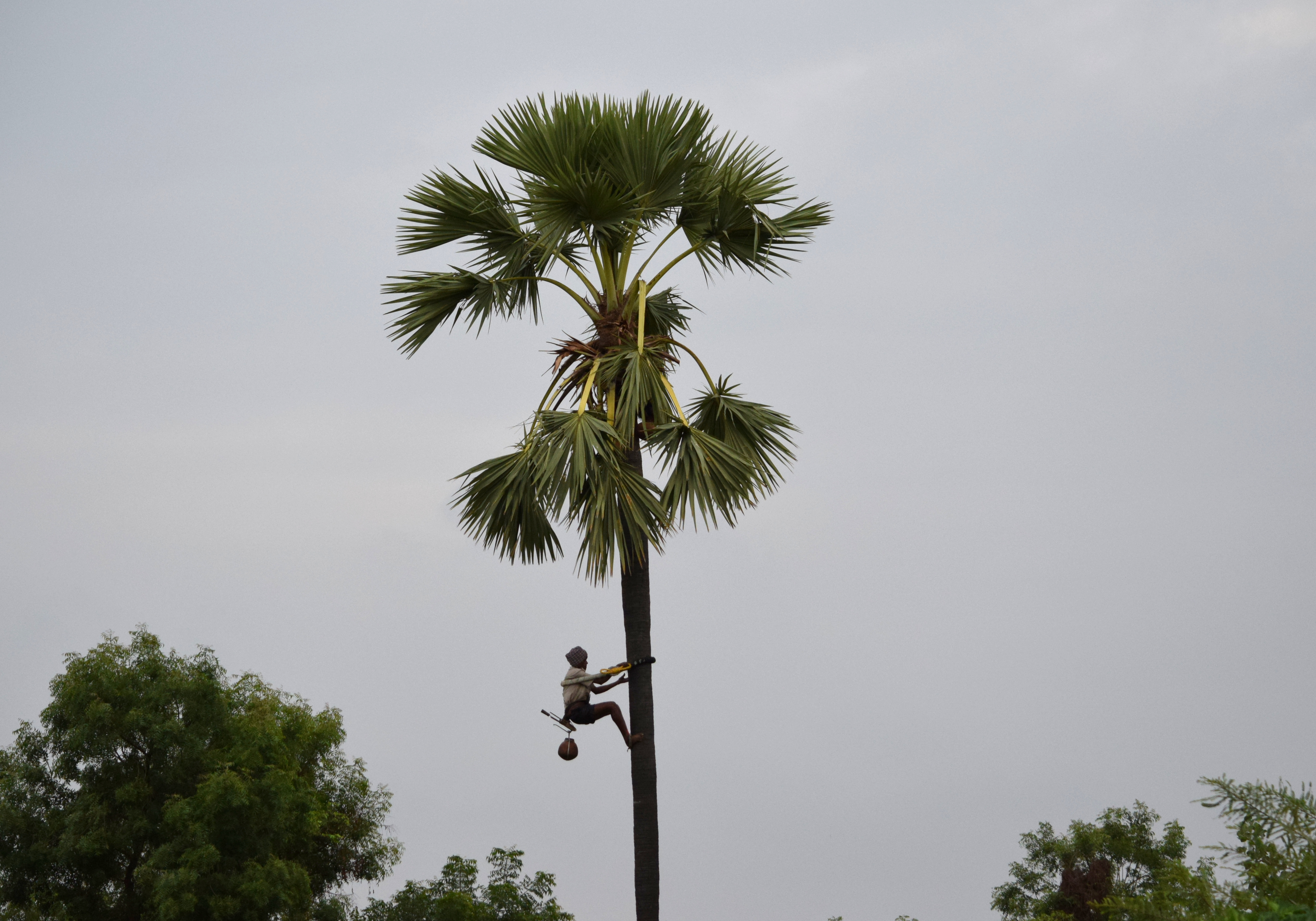 Toddy (Palm wine) is an alcoholic beverage created from the sap of various species of palm tree such as the palmyra, date palms, and coconut palms. The toddy tapper’s task is to climb the palm tree and obtain the sap from the palm flower. Here, a toddy tapper at work near Hyderabad, India.